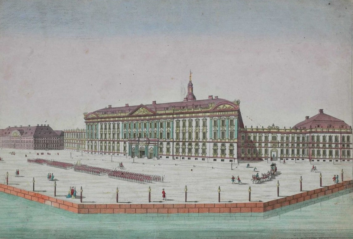 Christiansborg Slot in Copenhagen, Denmark